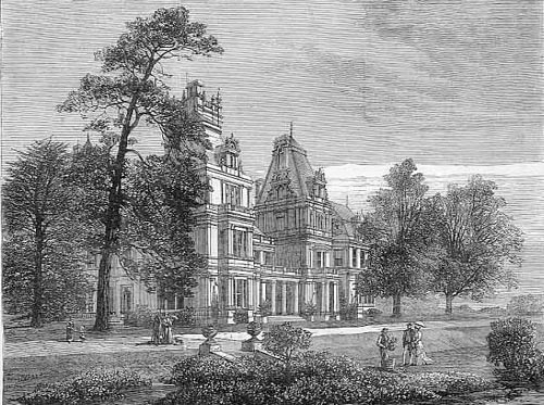 St. Leonard's Hill, Berkshire. This was extended in the late 1760s by architect Thomas Sandby for the Duchess of Gloucester